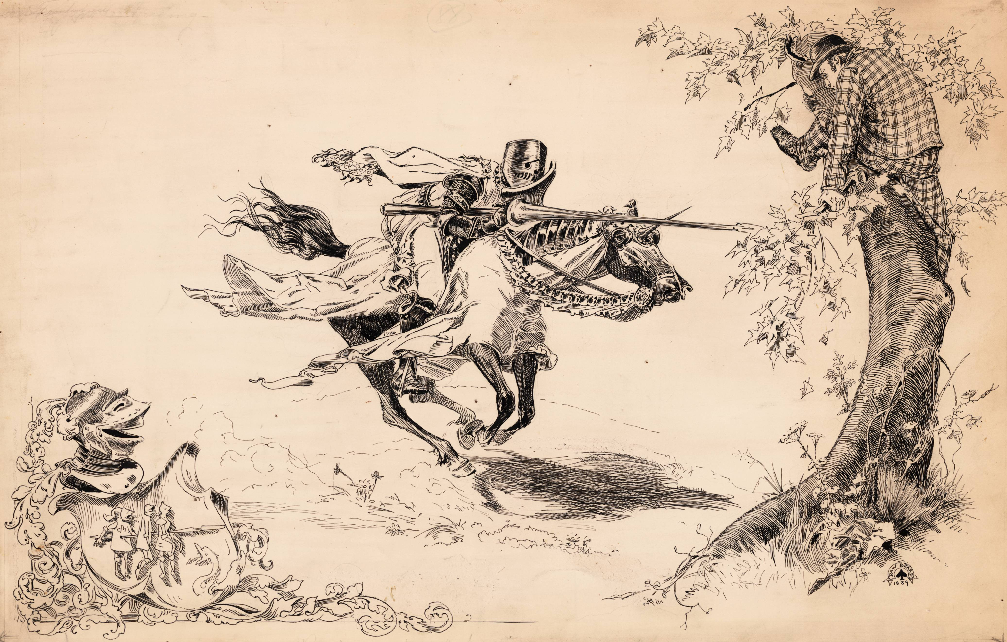 Frontispiece in: A Connecticut Yankee in King Arthur's Court / Samuel Clemens. New York : Charles L. Webster & Co., 1889. Knight in armor tilting at man in modern dress in tree onto which a man in modern dress has climbed for refuge.